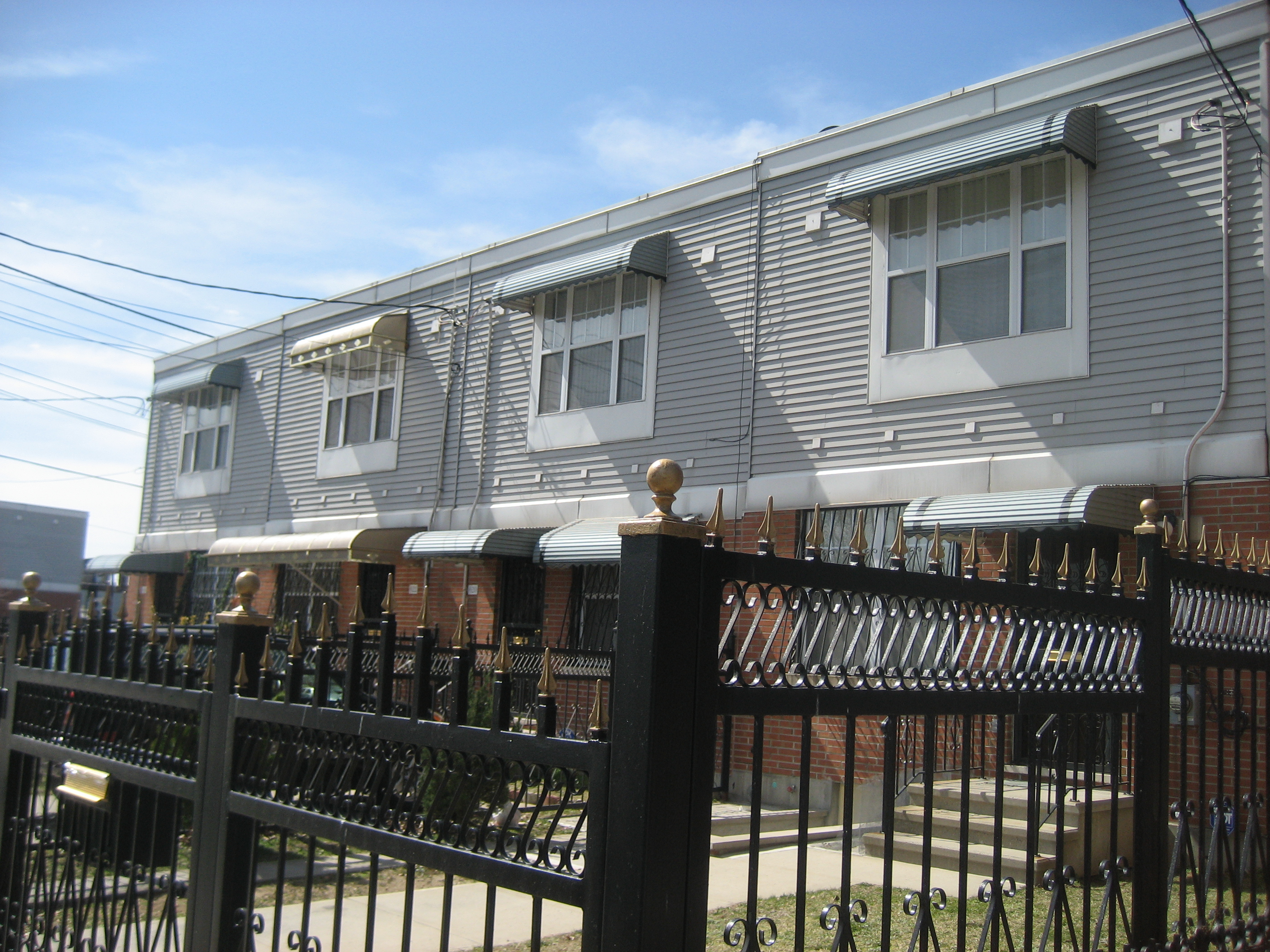 Nehemiah Homes on Sneidecker Avenue in East New York, Brooklyn, NY